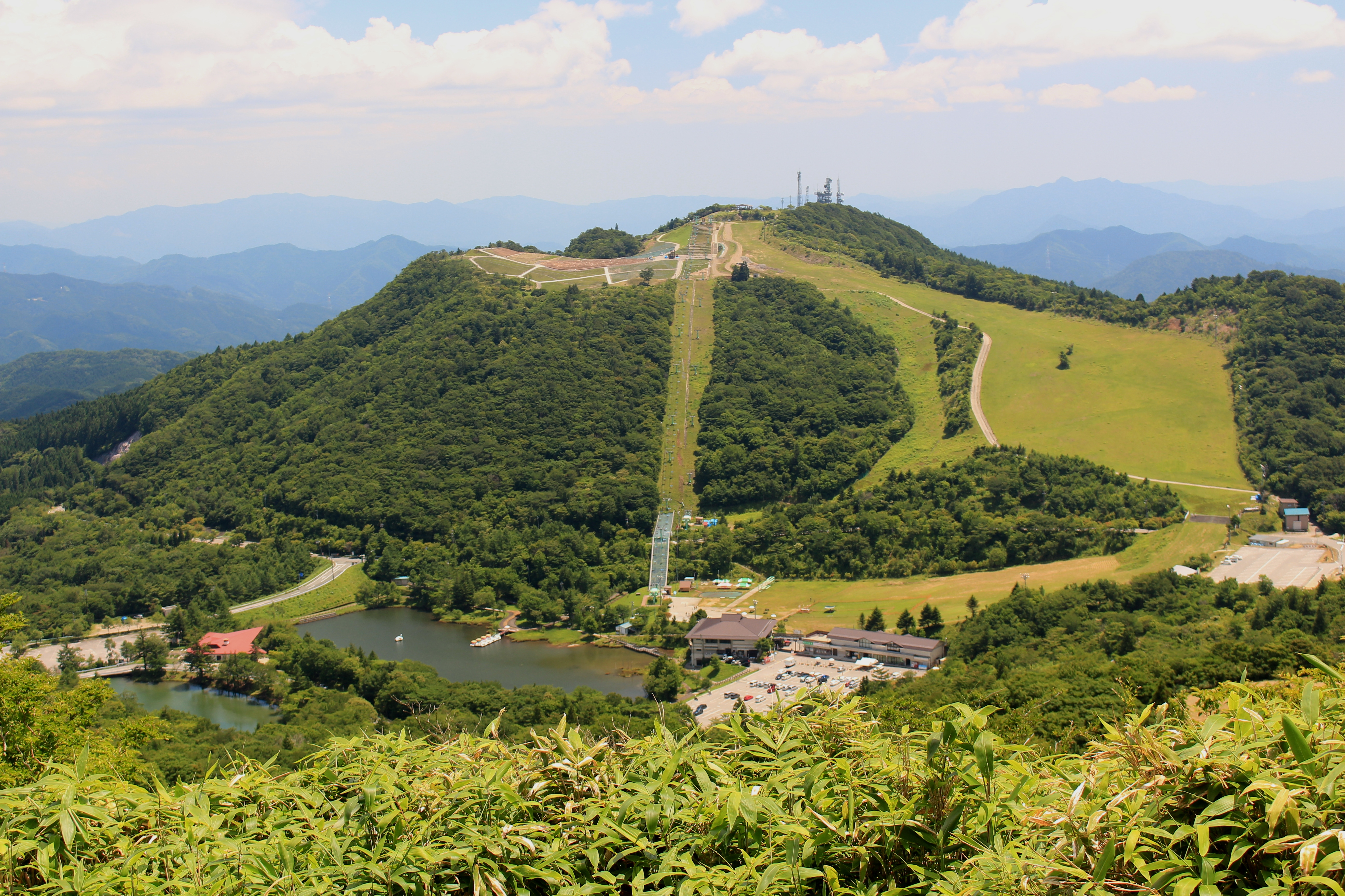 Mount Hagitaro seen from Mount Chausu in Toyone, Aichi prefecture ,Japan.